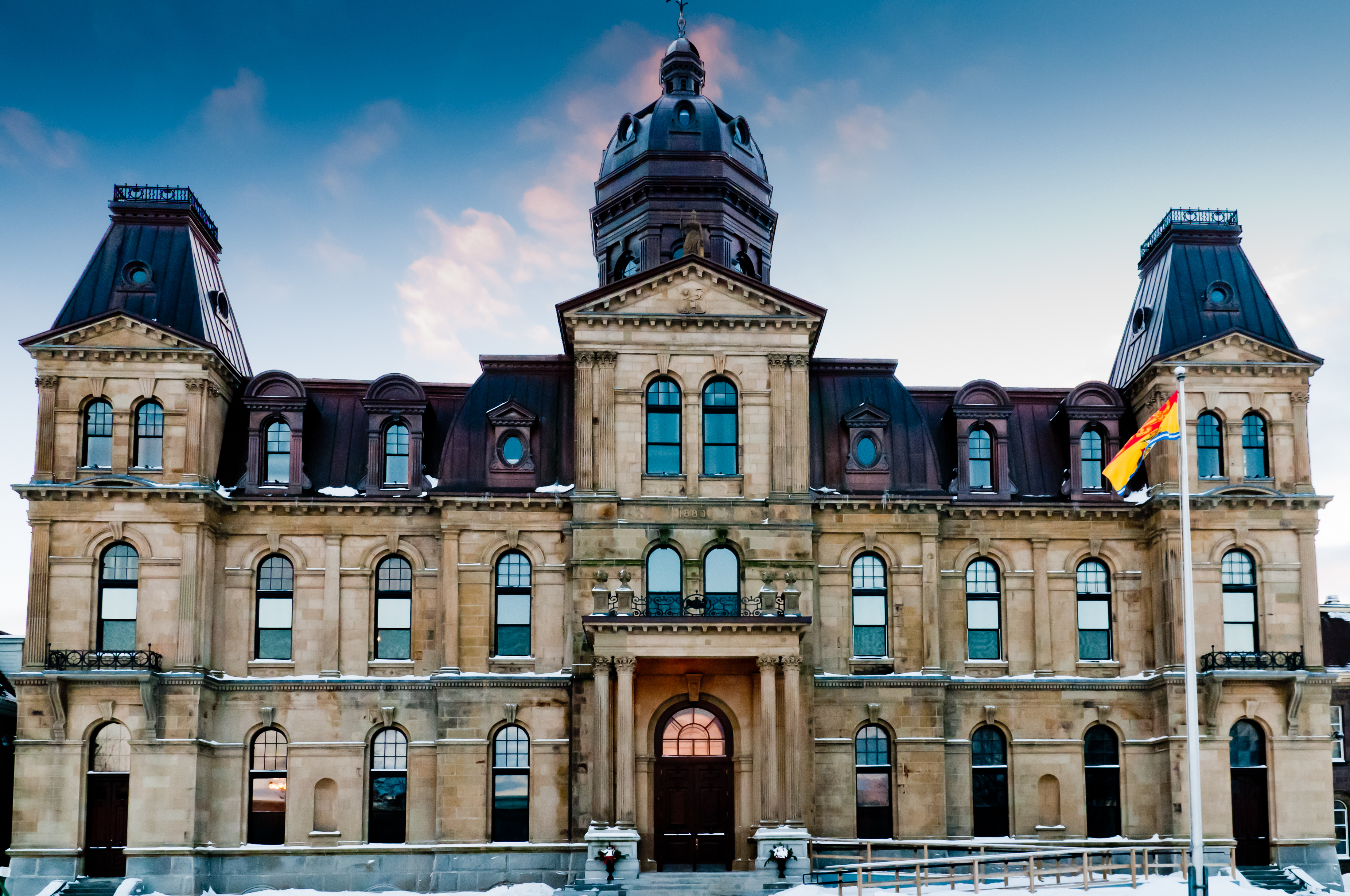 New Brunswick Legislative Assembly